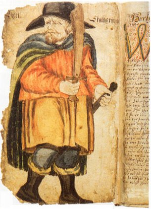 Egill Skallagrímsson doing his thing with the eyebrows and wearing his drooping hat. From the 17th century Icelandic manuscript AM 426 fol., now in the care of the Árni Magnússon Institute in Iceland. Immediate